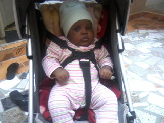 A baby on stroller with belt holding her for safety